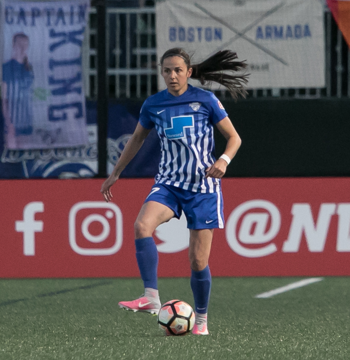 Amanda Frisbie playing for the Boston Breakers on May 7, 2017.